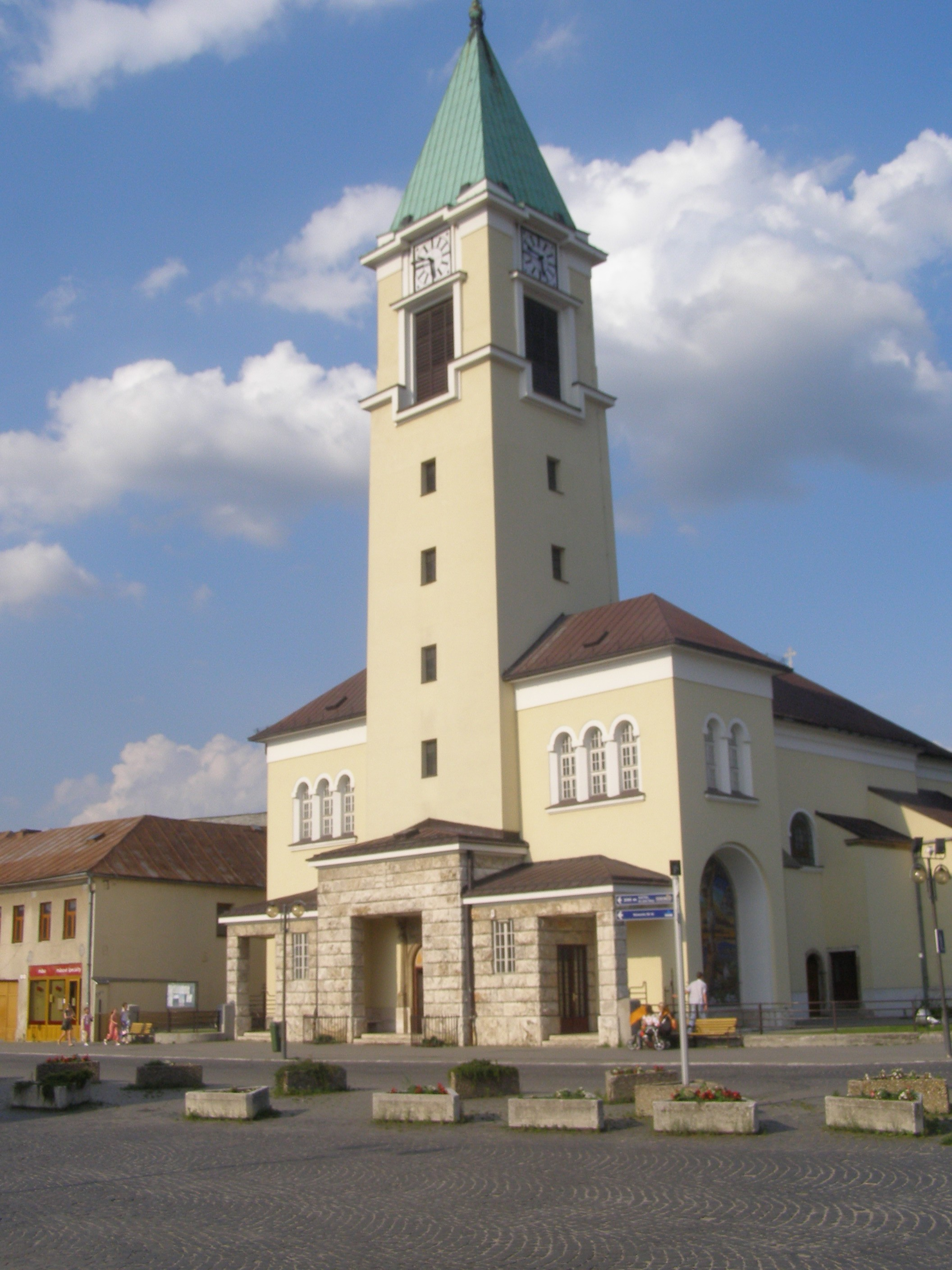 Bytča, Slovakia. All Saints church.